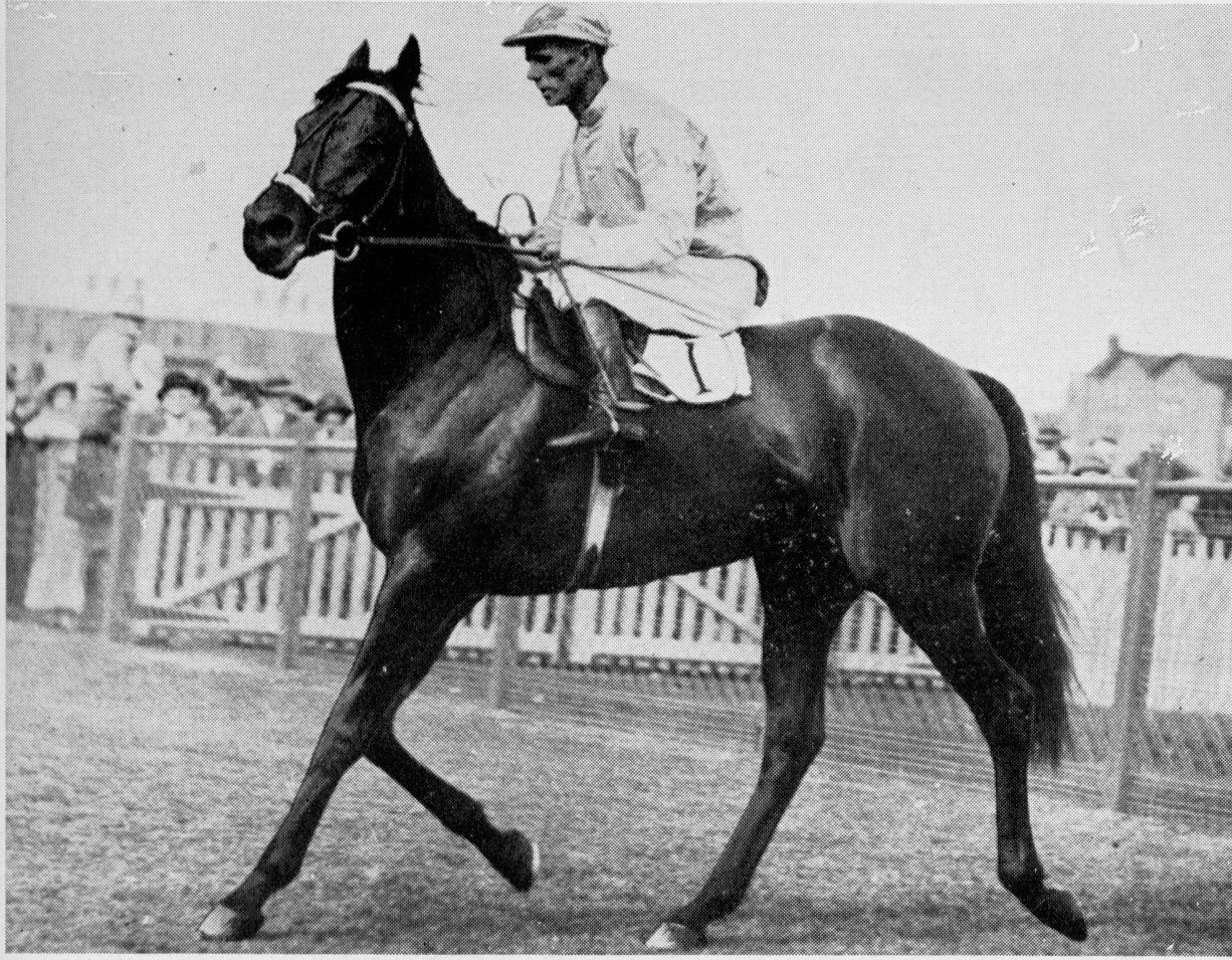 Chatham, bay Thoroughbred racehorse colt 1828, by Windbag from Myosotis.